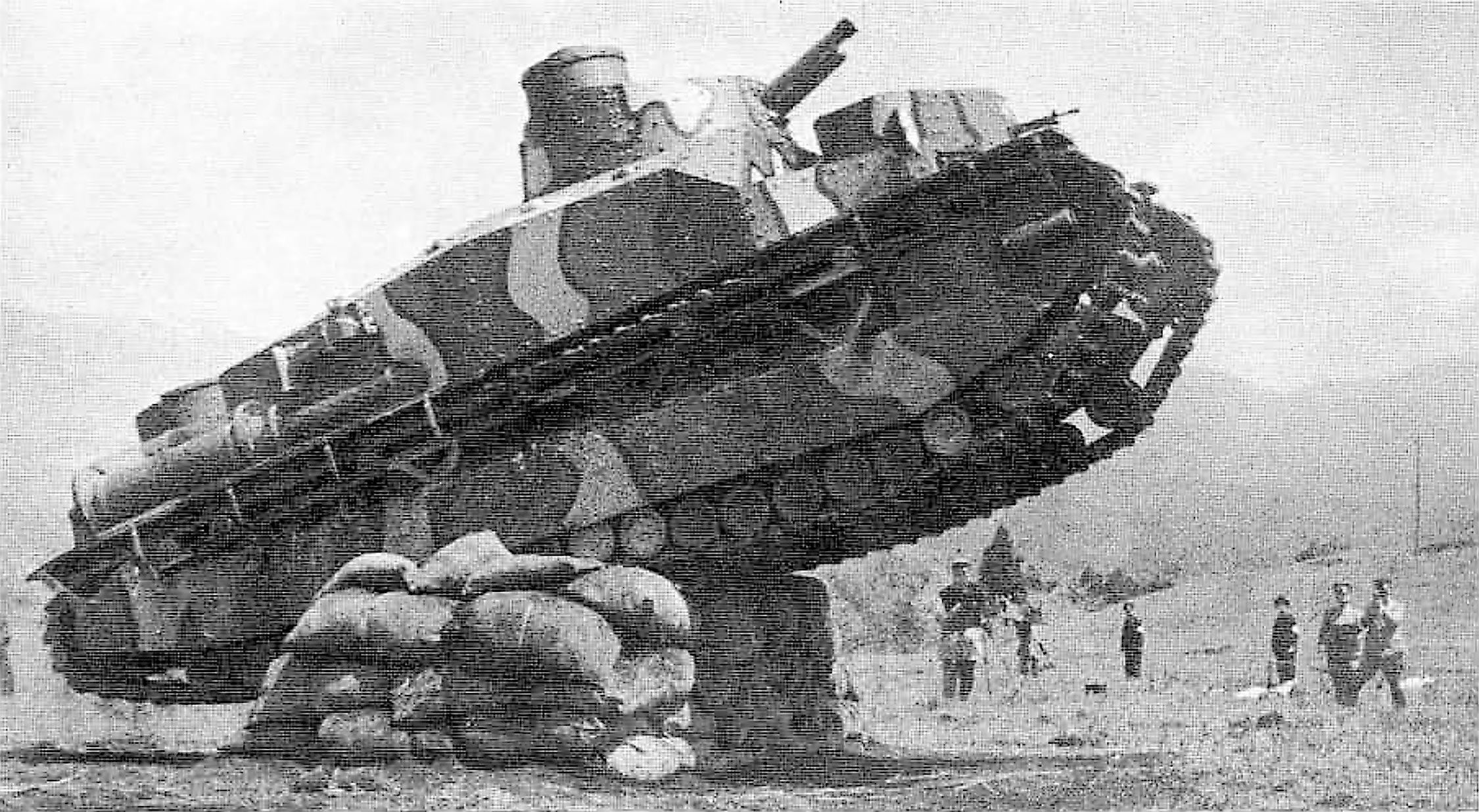 The Type 91 experimental heavy tank, climbing an obstacle during tests.